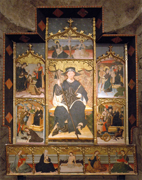 Altarpiece of St James, San Pedro de Siresa Monastery. Siresa, Huesca, Spain